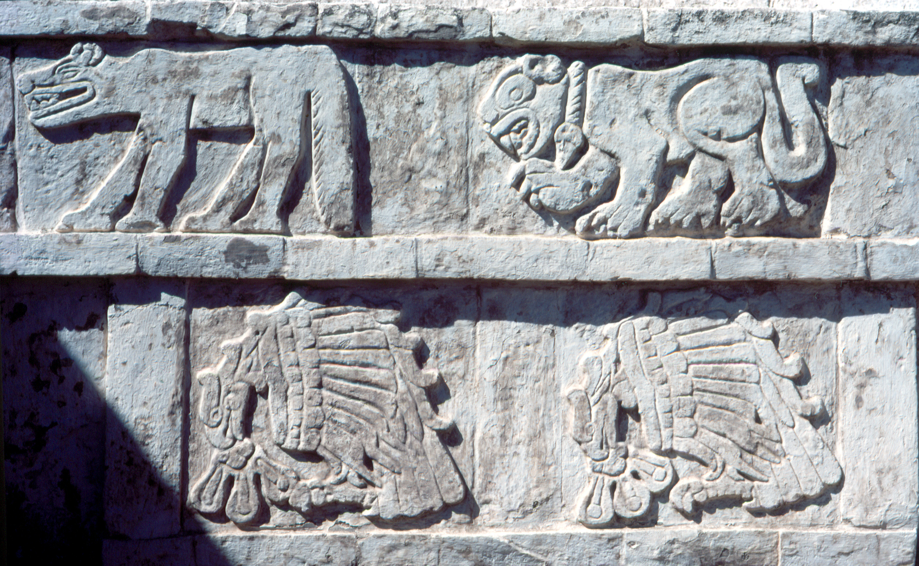 Tula, Hidalgo, Mexico: Pyramid of Tlahuizcalpanteuctli, relieves